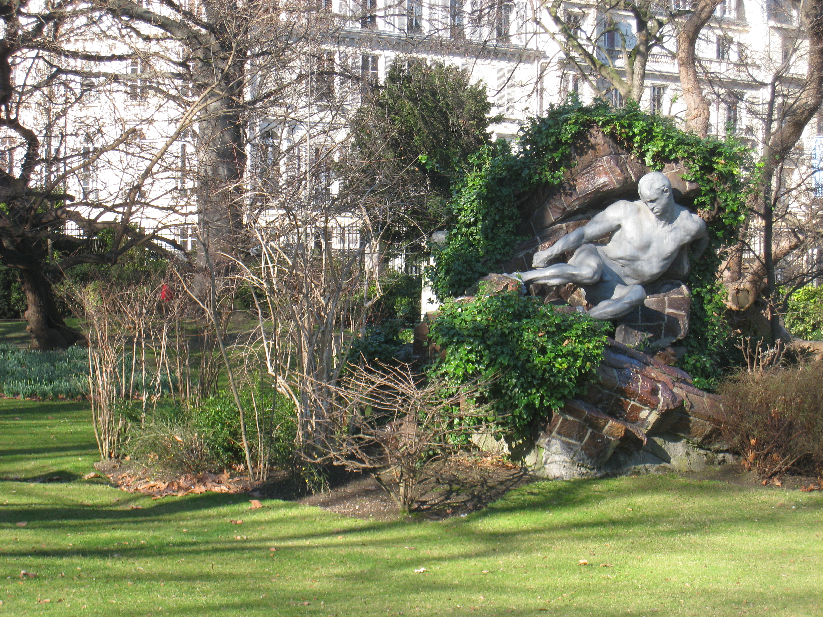 Jardin du Luxembourg, Paris, France - "L'effort" by Pierre Roche (1855-1922). Copyright restrictions (if any) have long since expired as the sculptor died more than 70 years ago.